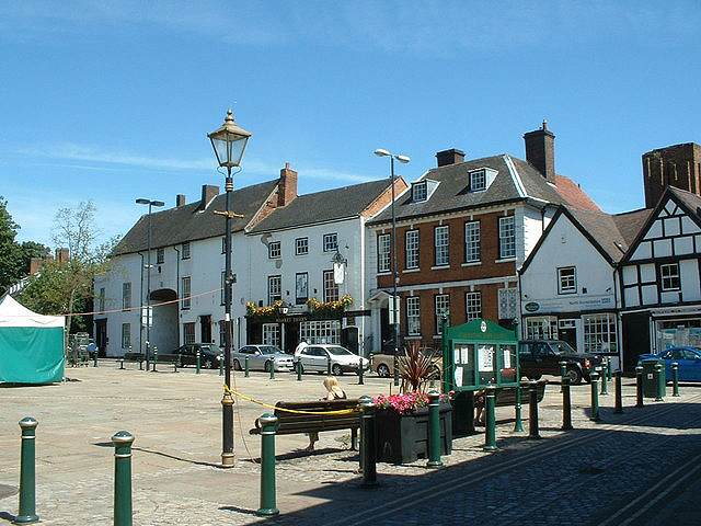 The market square of Atherstone in Warwickshire, England.